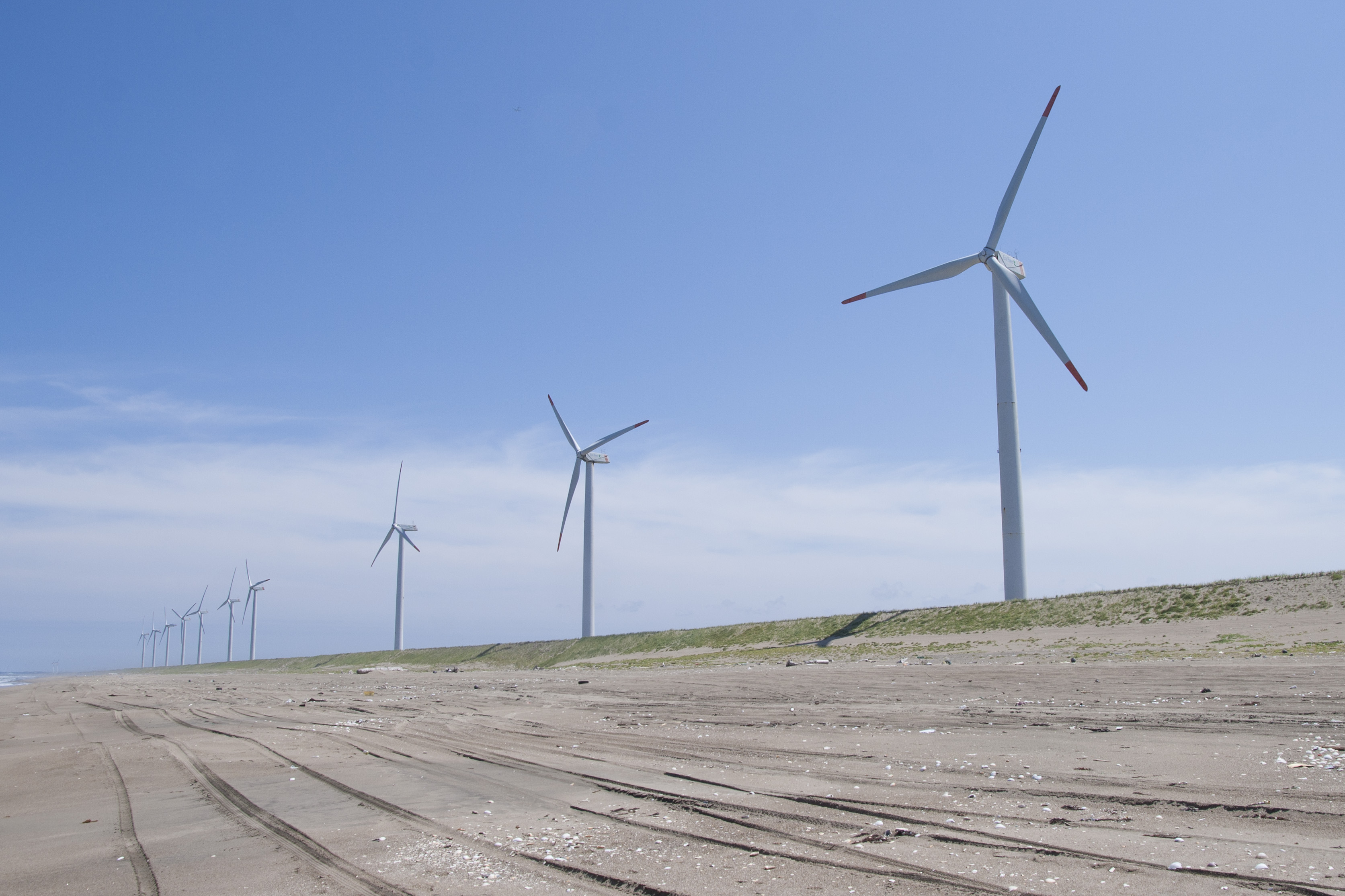 Hasaki wind power stations(Hasaki wind farm), Kamisu City, Ibaraki Pref., Japan